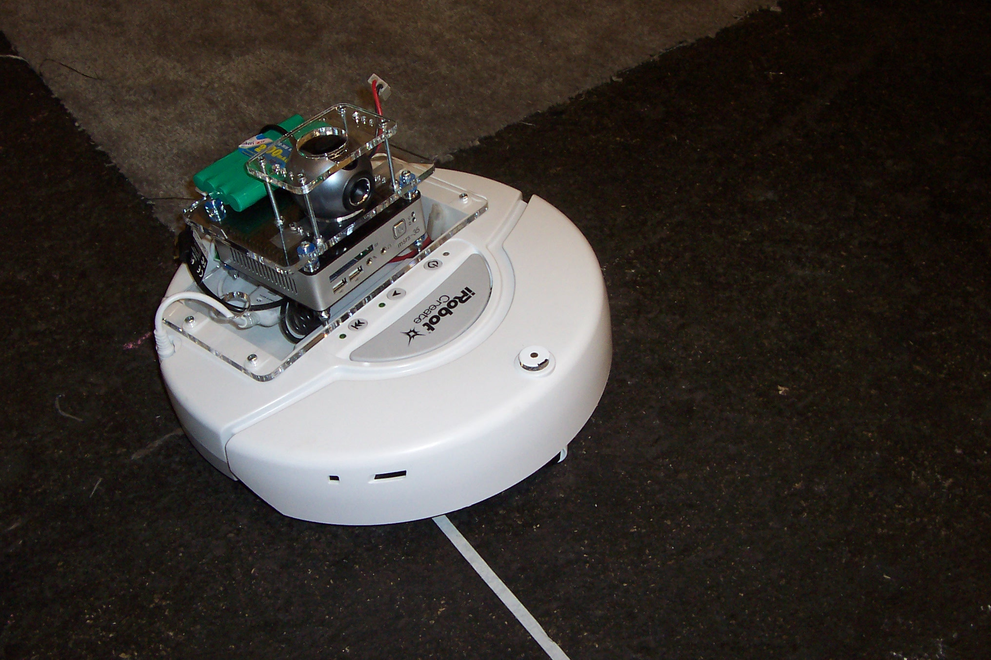 iRobot Create with mounted camera and small form factor computer.